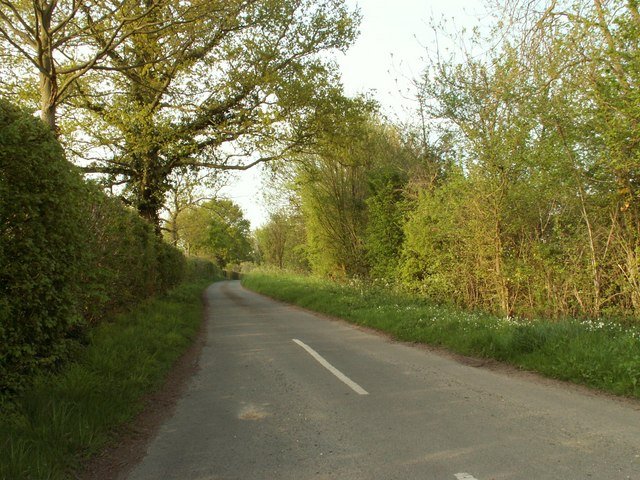 An un-named road at Horne's Green